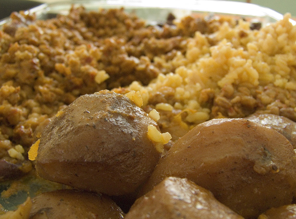 Close-up to a dish of chamin